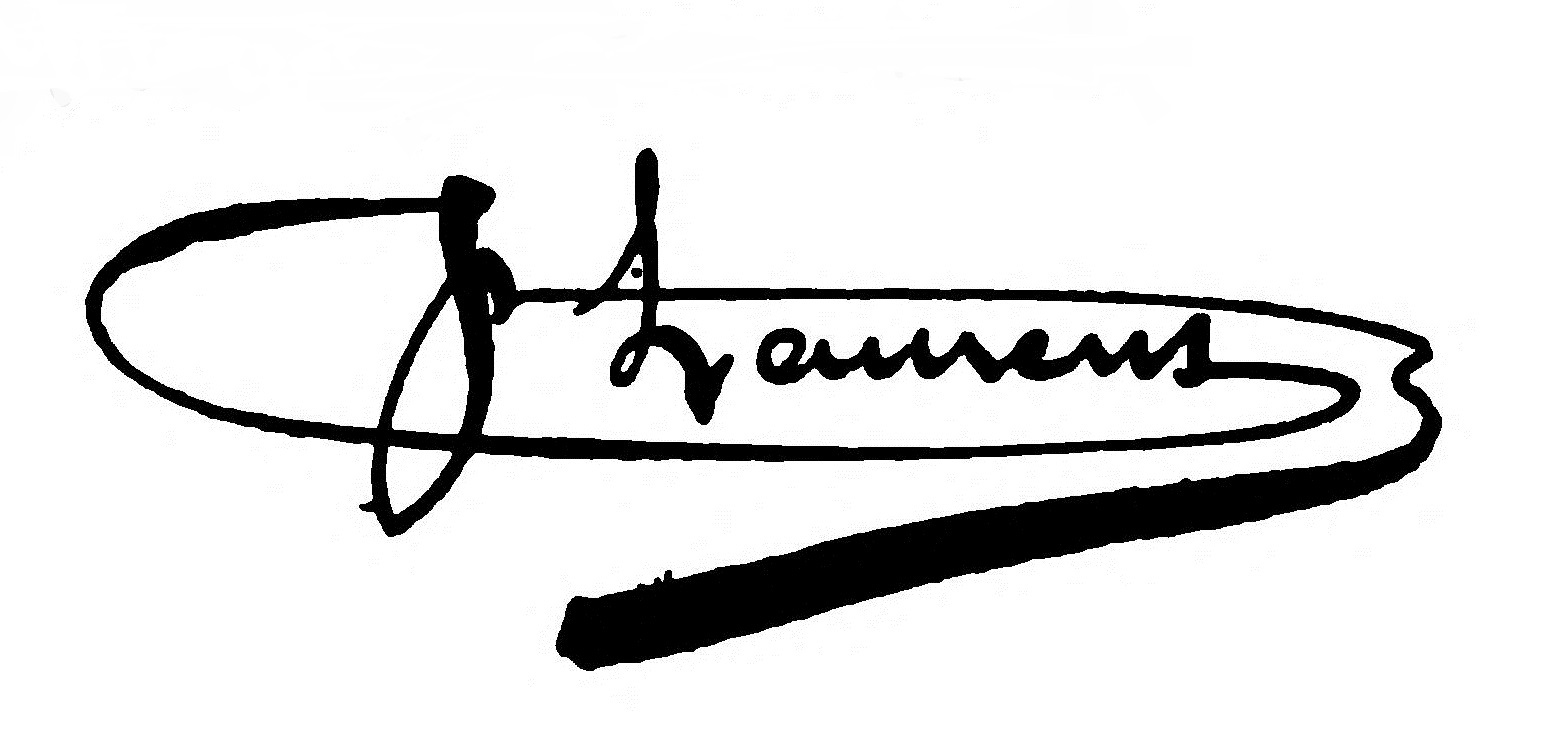 Jean-Paul Laurens